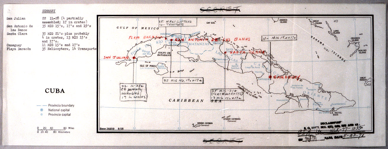 October 17, 1962: A map of Cuba, with a partial listing of Soviet military equipment, used during the President's meetings with political and military advisors.